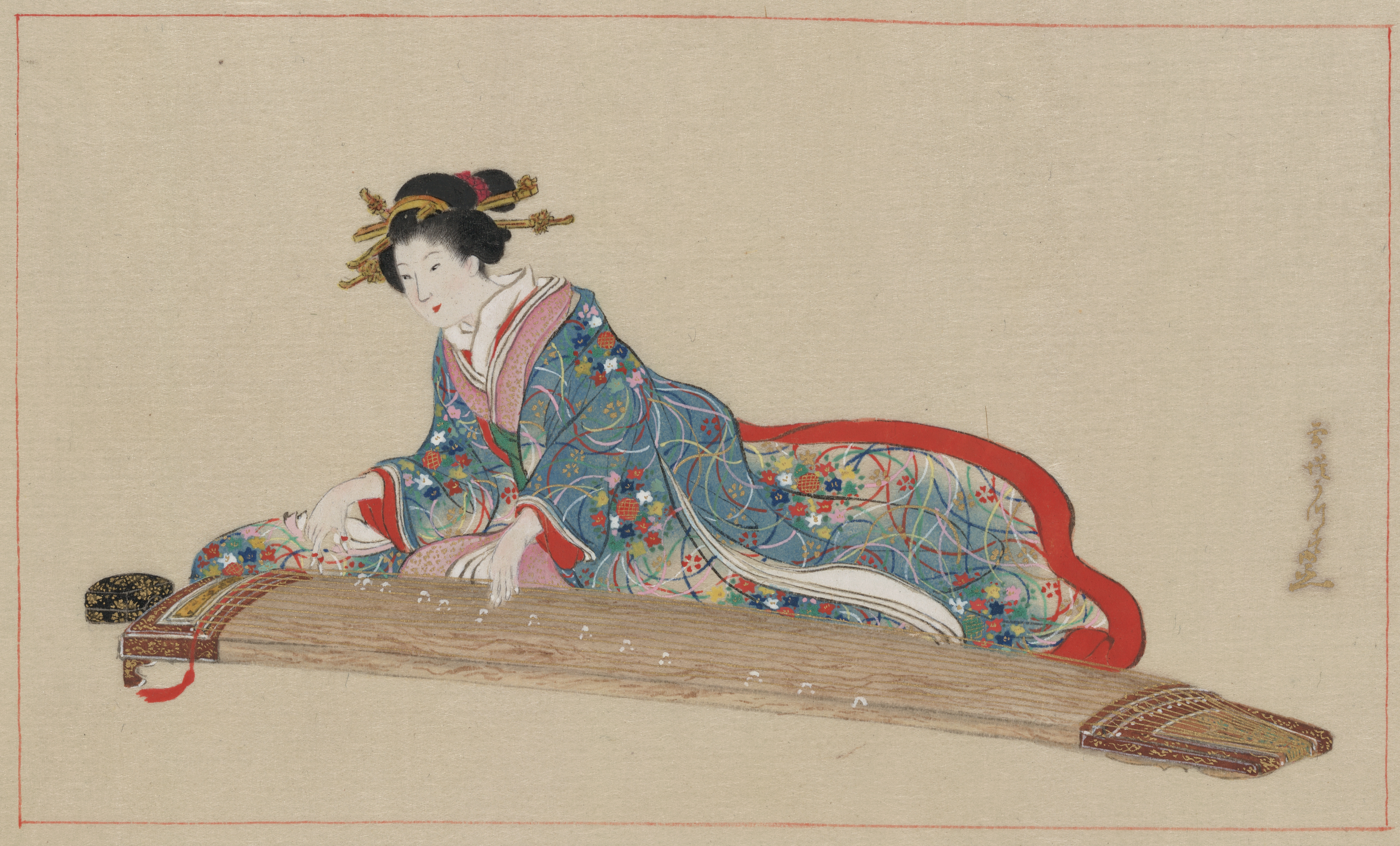 A Japanese woman playing the koto, drawn in 1878 by Hasegawa Settei.